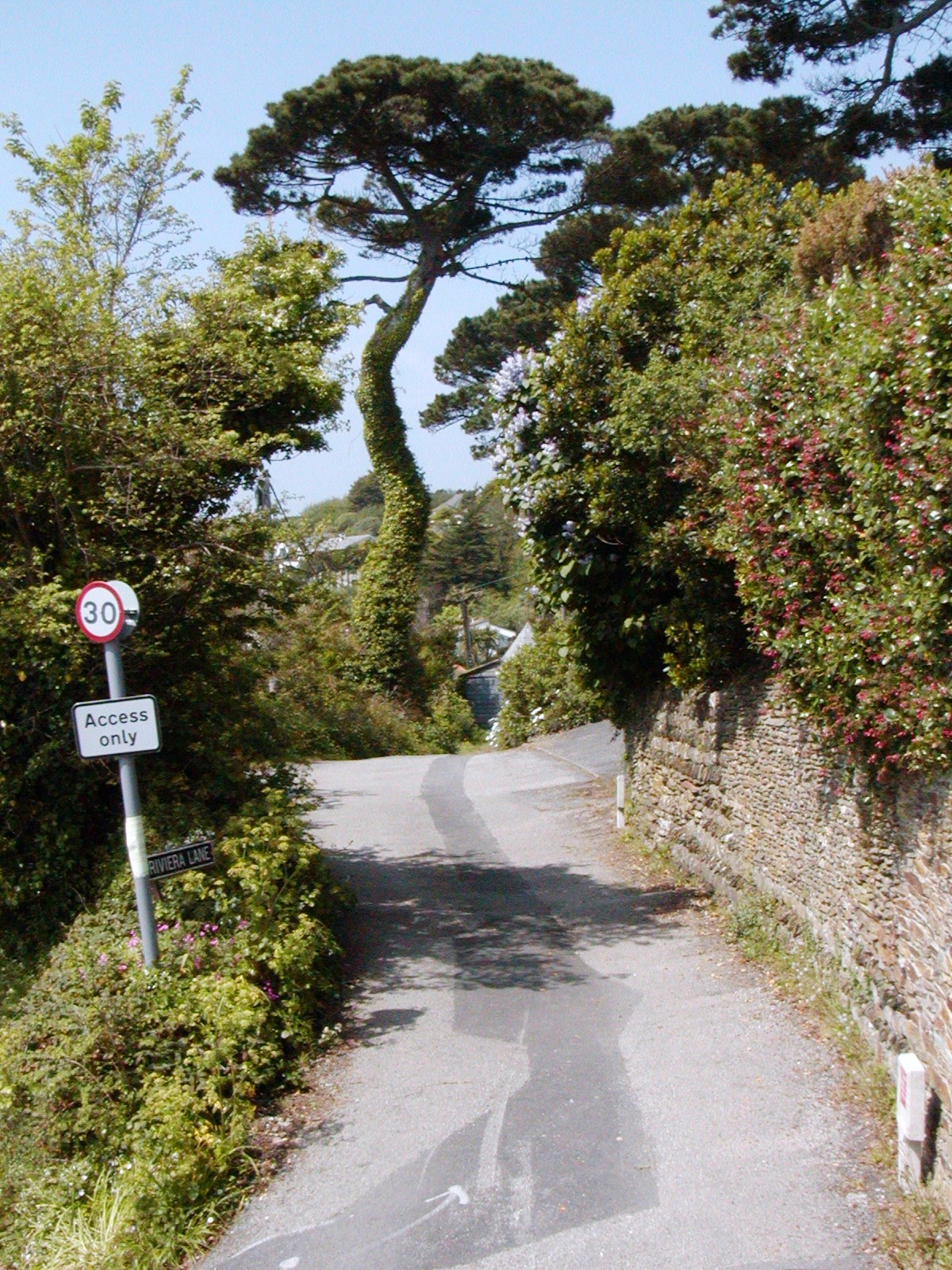 Mediterranean impressions in St Mawes